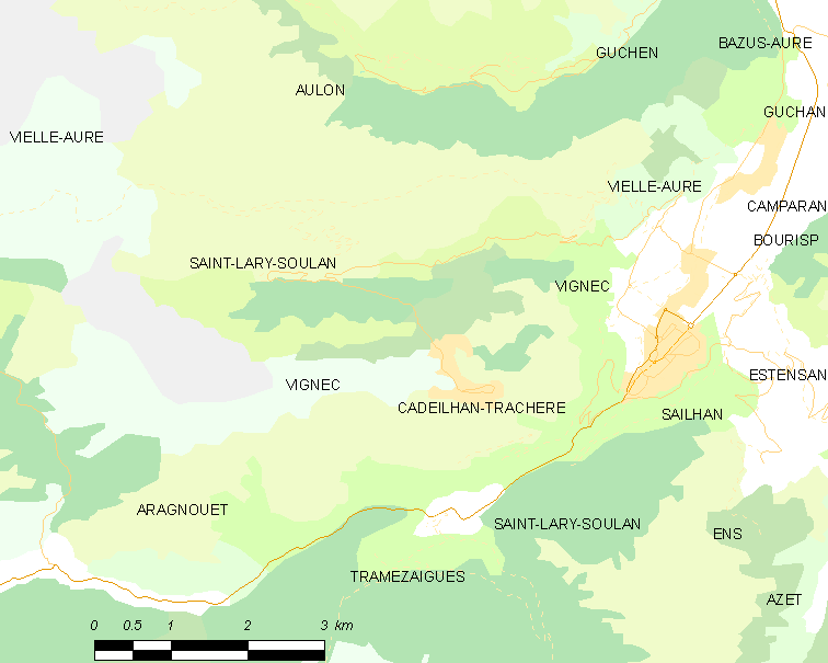 Map of French municipality